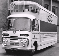 Photoshop projection of the finished restoration of a 1967 Bedford mobile cinema unit with Plaxton Panorama cab on a Bedford SB3 chassis.